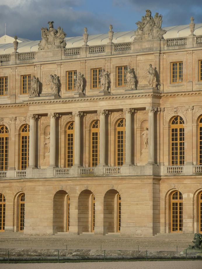 Palace of Versailles